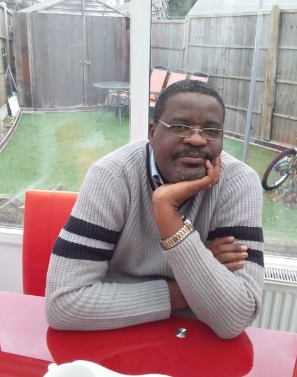 On his property at Ferham Royal, England. December 2018